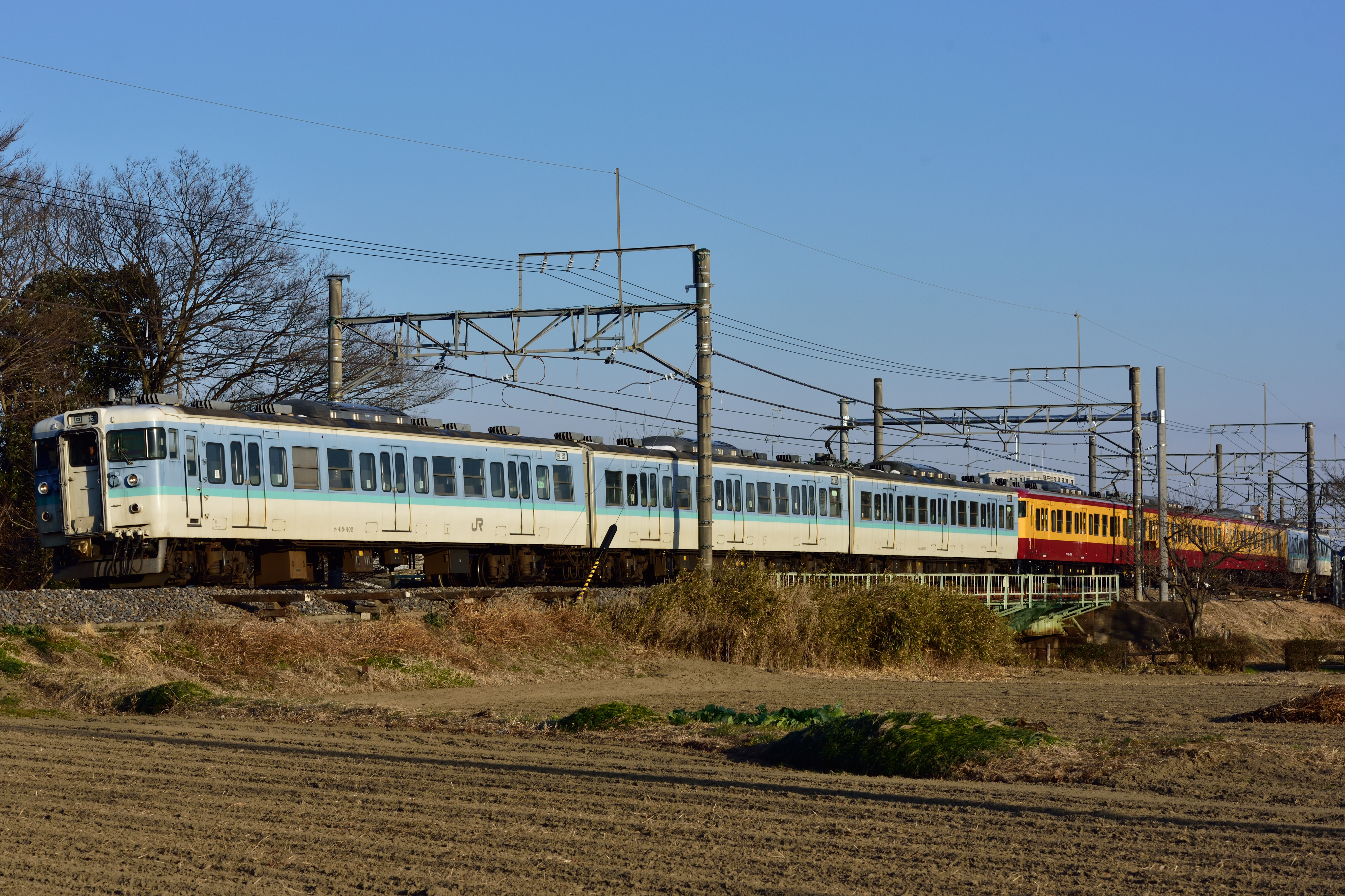 Niigata-based JR East 115 series EMU set N3 in revival "Niigata Livery" being moved back to Niigata Depot sandwiched between Nagano-liveried set L99